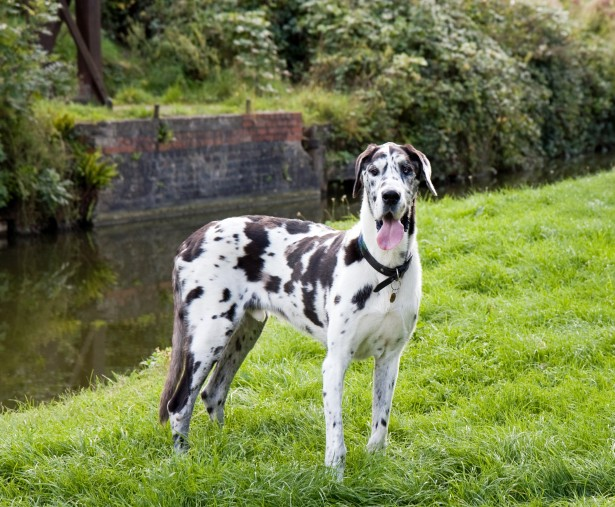 Beautiful harlequin great dane dog